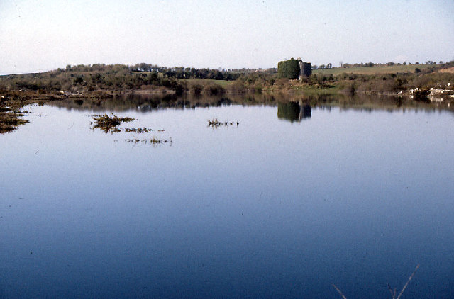 Newtown Castle, west of Gort